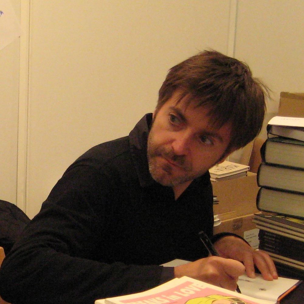 Paco Roca at Astiberri publishing company's stand in Getxo comic con in 2008.